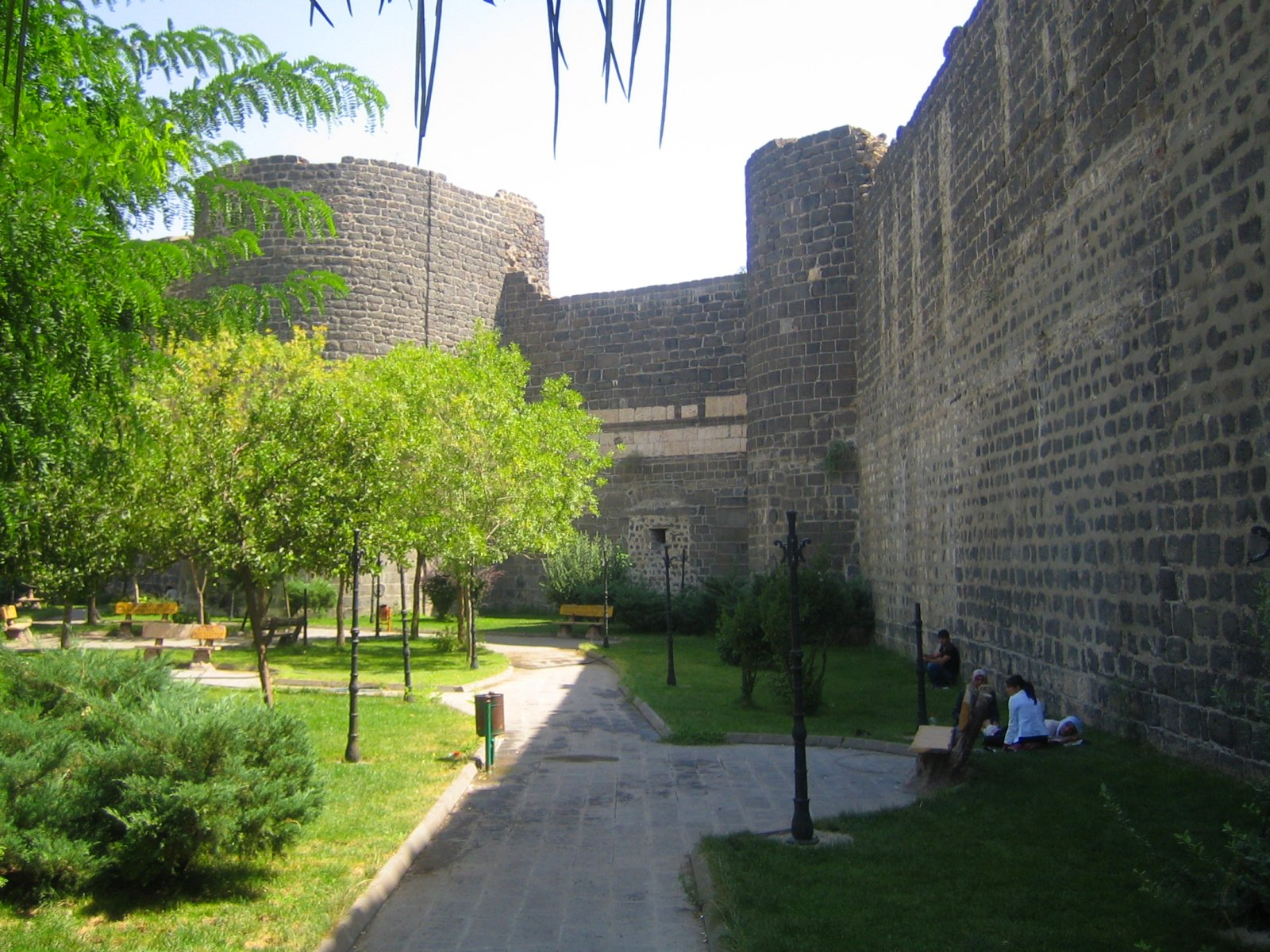 Diyarbakir: Town wall near Northern Gate (Dağ Kapısı) from outside the old town.